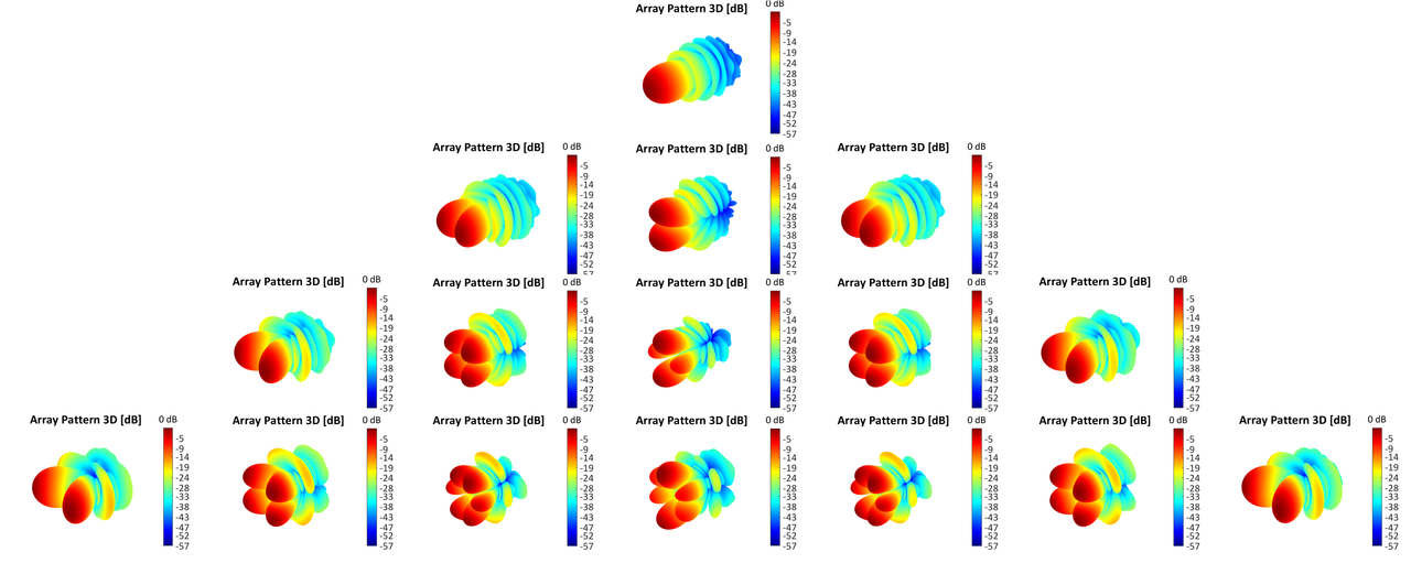 Spherical Harmonic Characteristic Modes